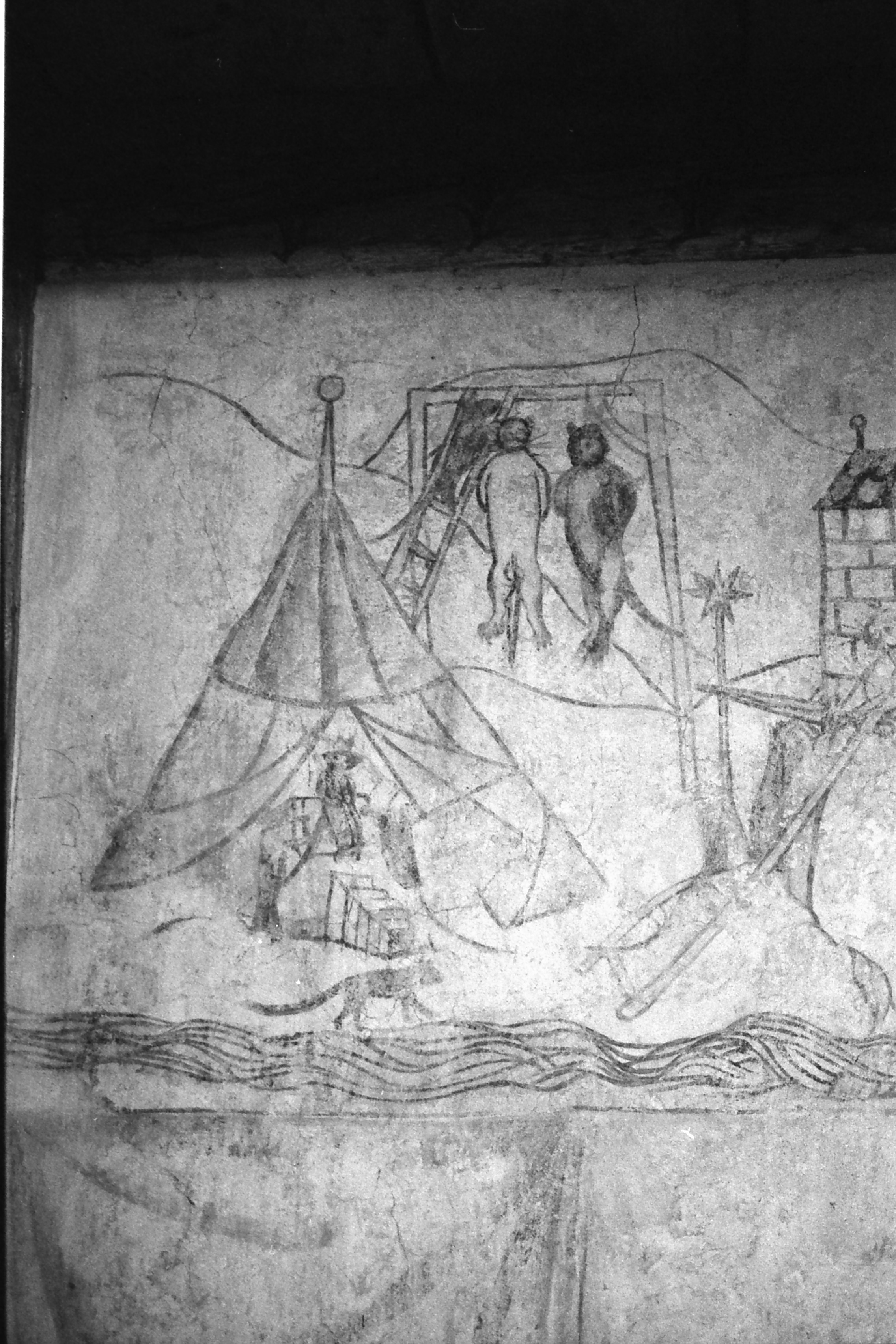 Castle Moos-Schulthaus in Eppan/Appiano (South Tyrol, Italy) (Scan, Ilford 400 Delta)